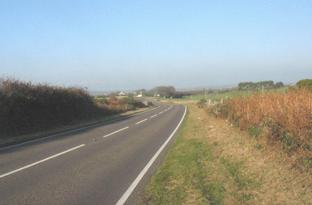 The A 4080 south of Pensarn